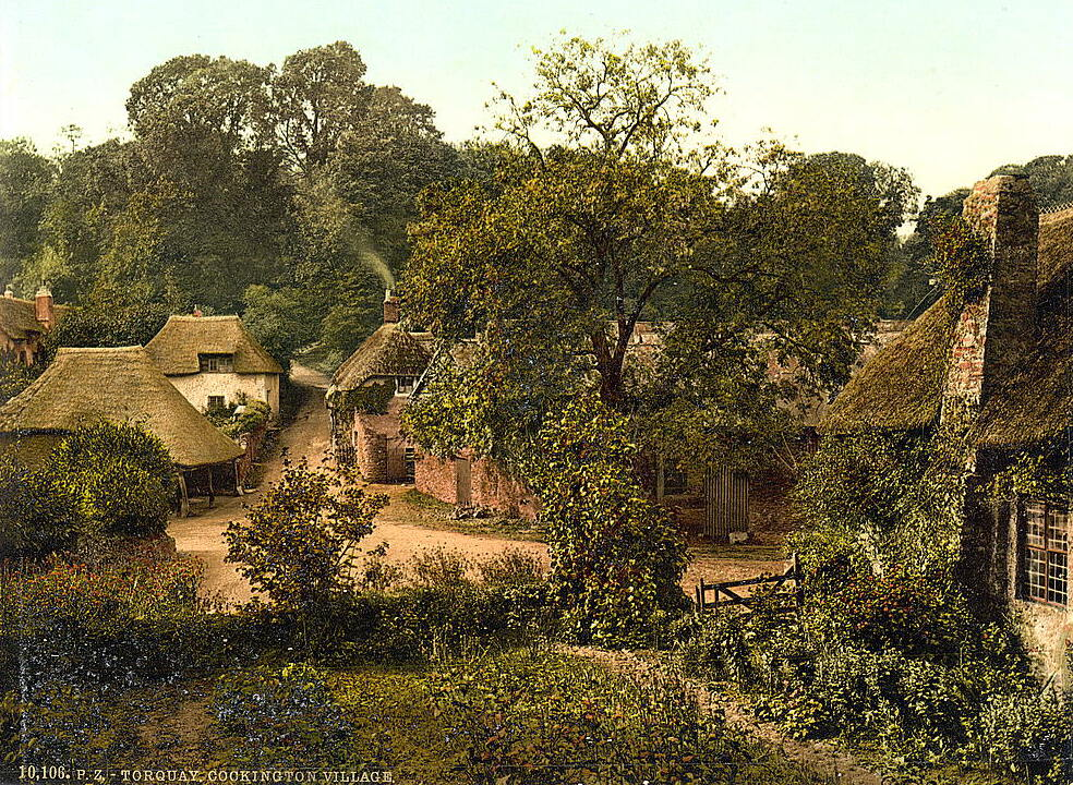 [Cockington Village, Torquay, England] [between ca. 1890 and ca. 1900]. 1 photomechanical print : photochrom, color. Notes: Title from the Detroit Publishing Co., Catalogue J--foreign section, Detroit, Mich. : Detroit Publishing Company, 1905. Print no. "10106". Forms part of: Views of the British Isles, in the Photochrom print collection. Subjects: England--Torquay--Cockington. Format: Photochrom prints--Color--1890-1900. Repository: Library of Congress, Prints and Photographs Division, Washington, D.C. 20540 USA, Part Of: Views of the British Isles (DLC) 2002696059 More information about the Photochrom Print Collection is available at Higher resolution image is available (Persistent URL): Call Number: LOT 13415, no. 928 [item]